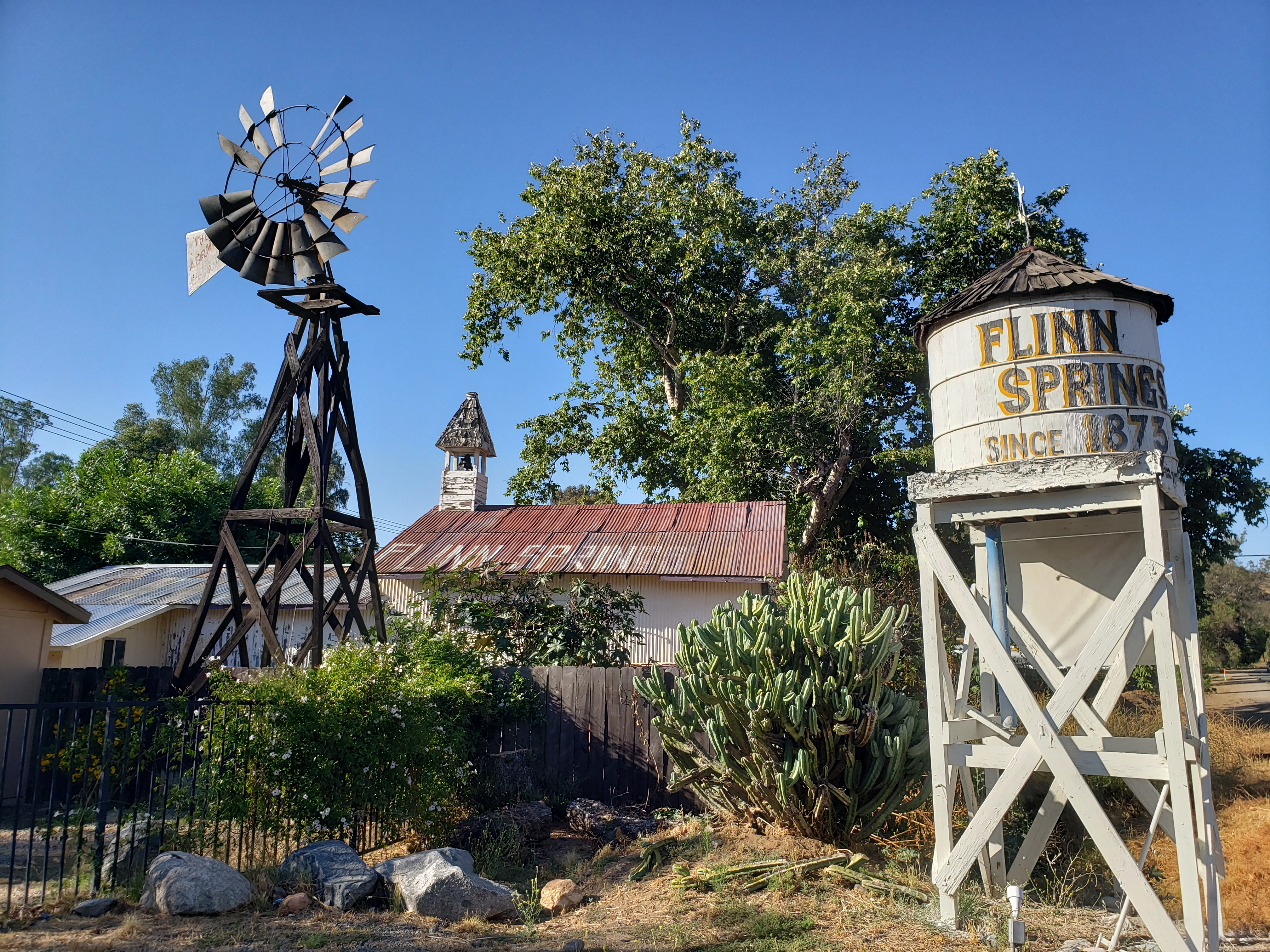 Flynn Springs old buildings